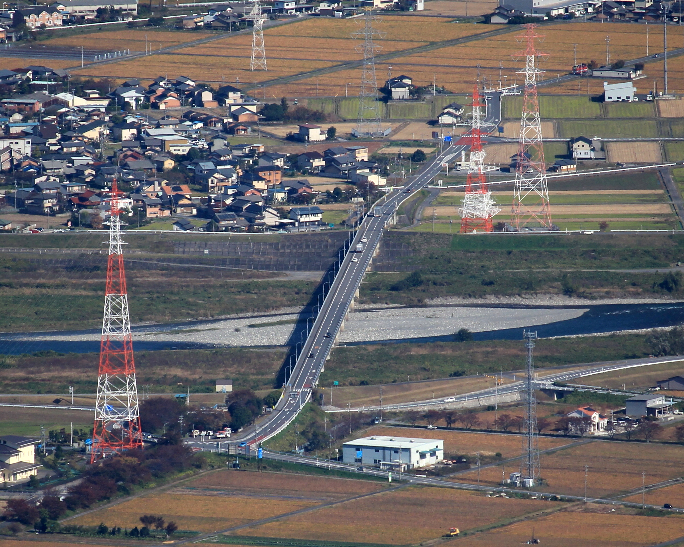 Sancho Bridge over Ibi River in Gifu prefecture, Japan.